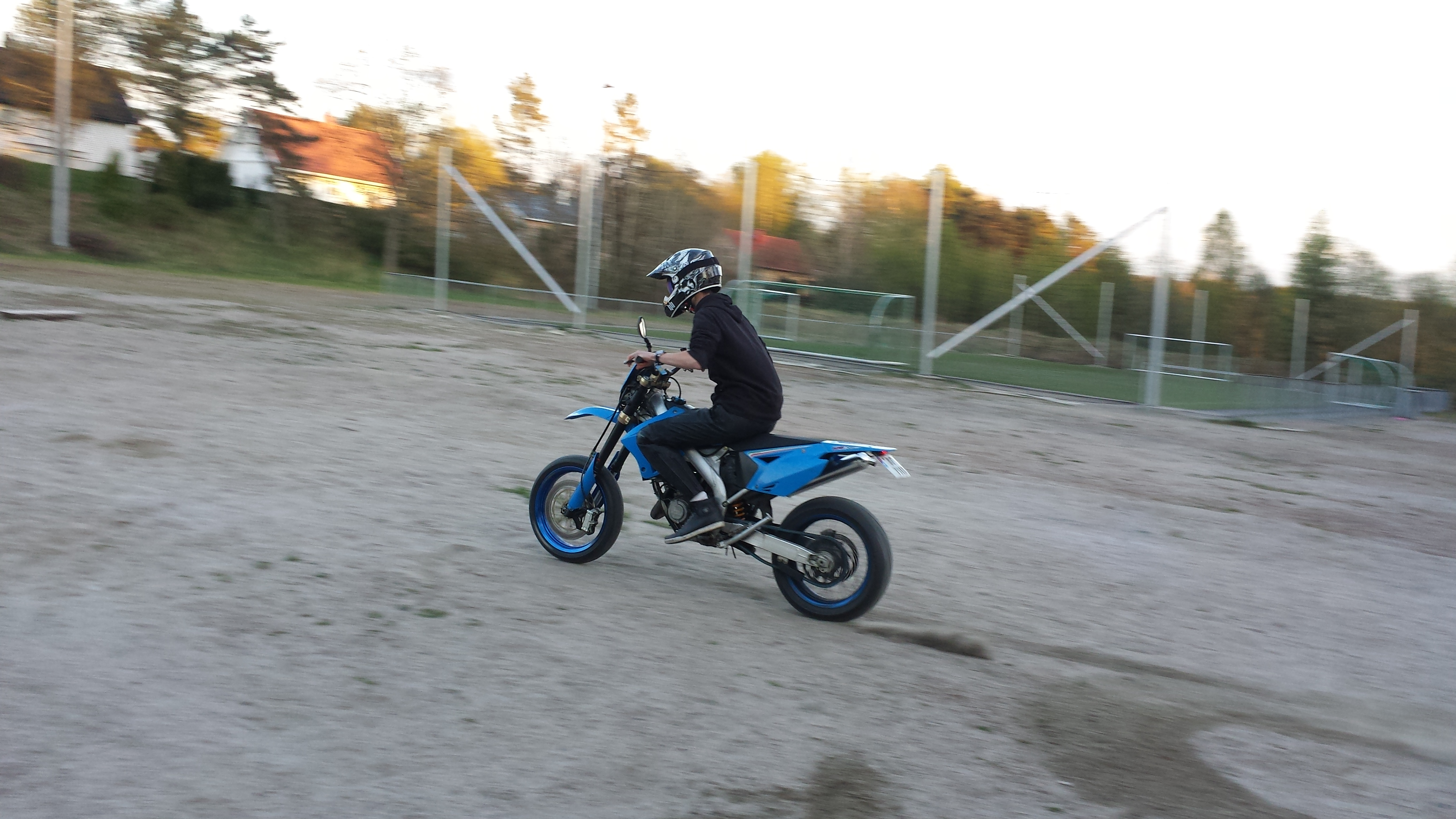 TM SMR 125 driving on a gravel road.